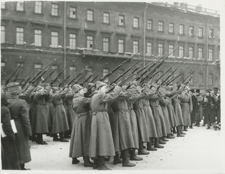 Oath to the Red Army